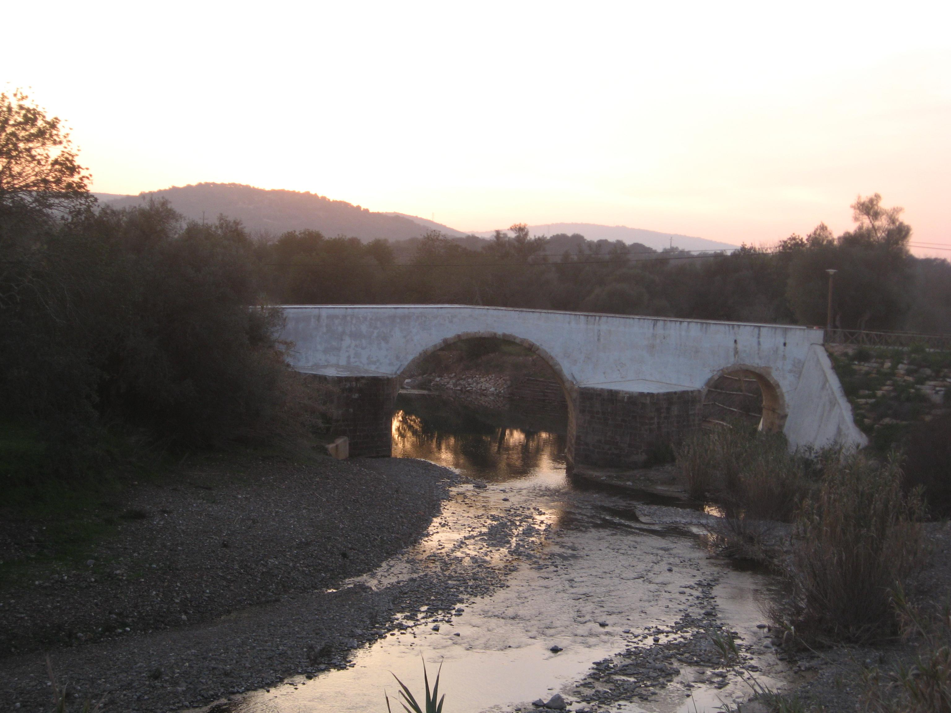 Roman bridge of Alamos, Loulé (Portugal)